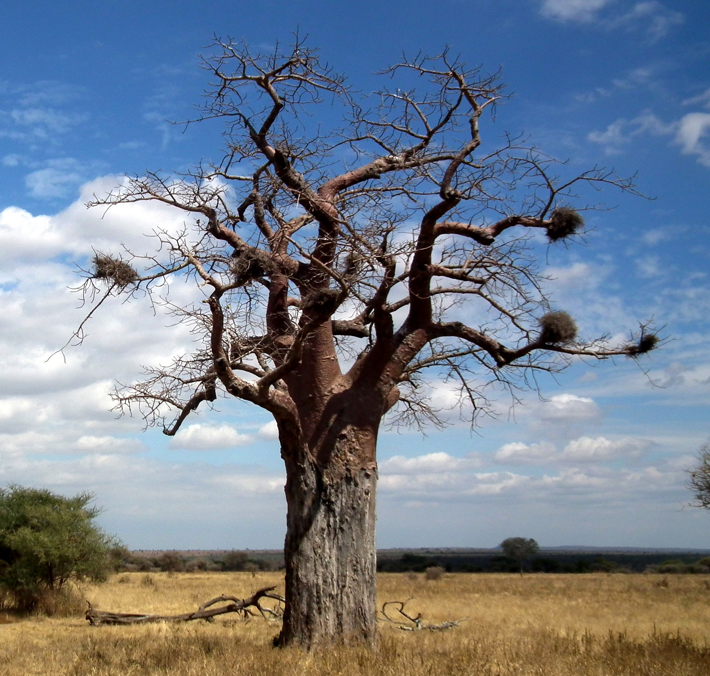 Baobab tree with Red-billed buffalo weaver nests. Picture taken in northern Tanzania